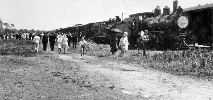 The arrival of the Excursion Train, Railway Picnic, Nielson Park, Burnett Shire.